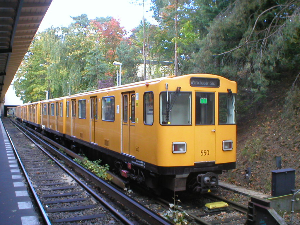 The Berlin U-Bahn train type A3L92